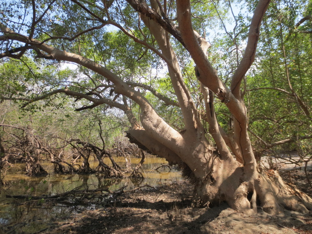 Mature mangrove tree (Avicennia marina) at edge of Lake Be Malae